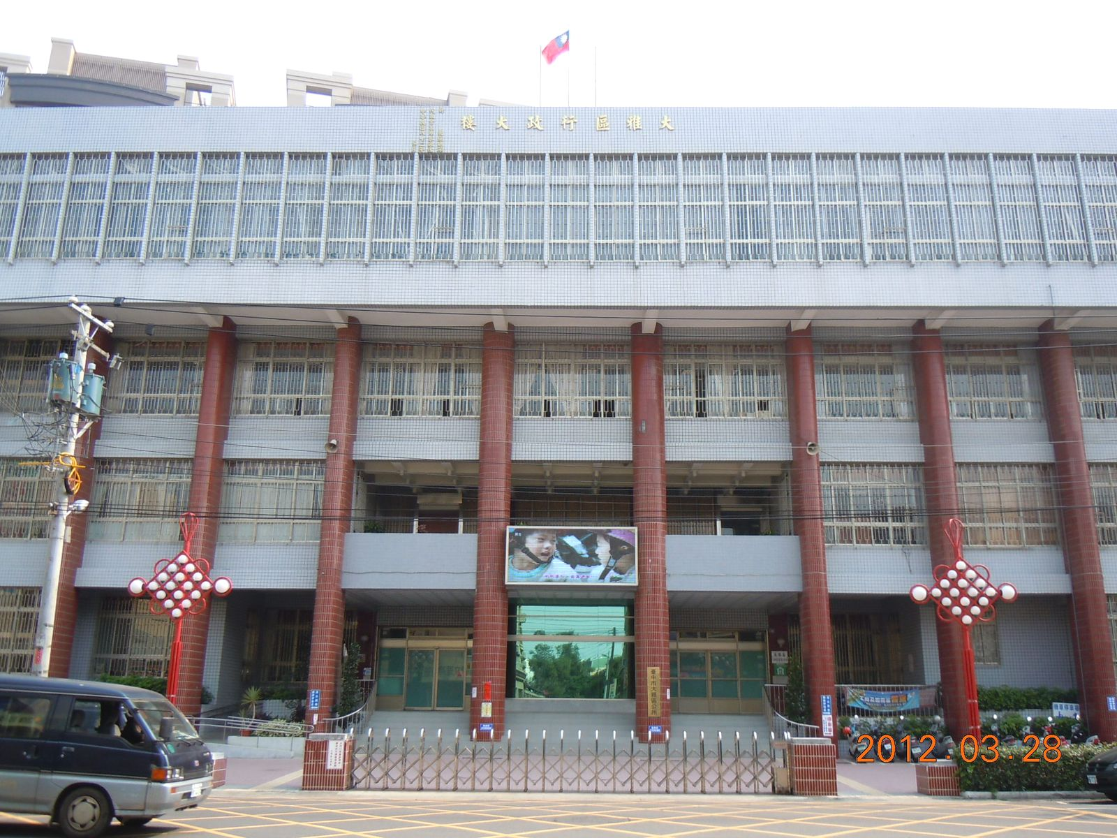 Daya District Administration Building, Taichung City. 中文（台灣）: 臺中市大雅區行政大樓，地址：臺中市大雅區雅環路二段301號。